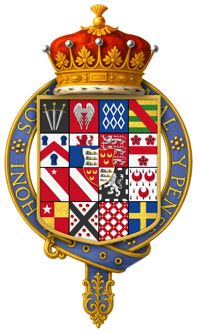 Coat of arms of John Poulett, 1st Earl Poulett, KG